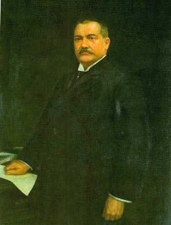 Spanish Politician Eduardo Cobián